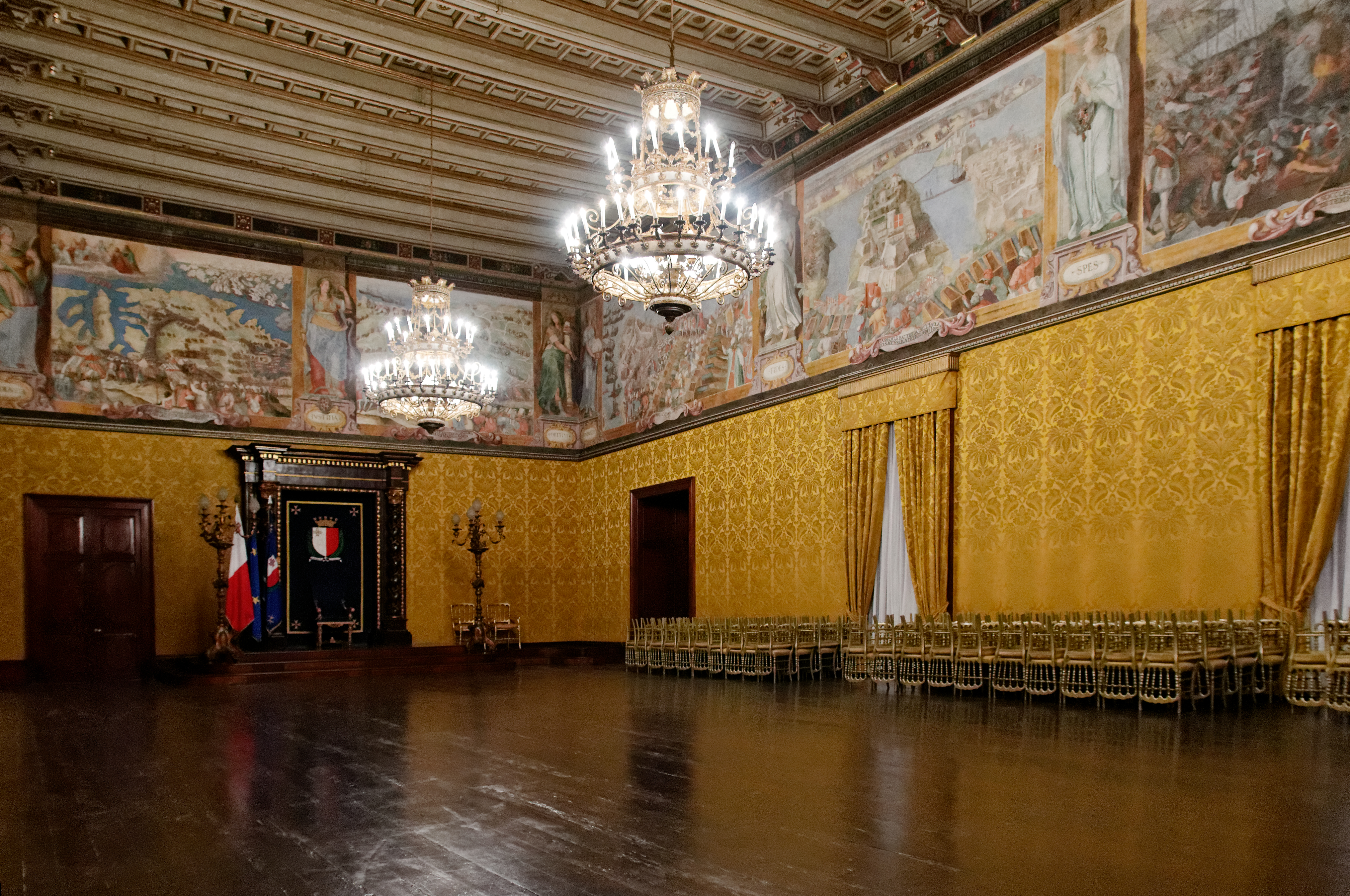 A room of the Grandmaster's Palace in Valletta, Malta.